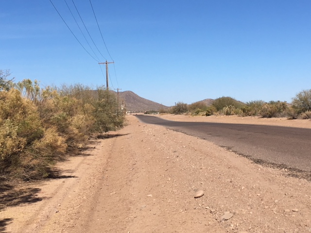 Looking north towards the Casa Grande Mountains on S Henness Road on the west side of Arizona City.